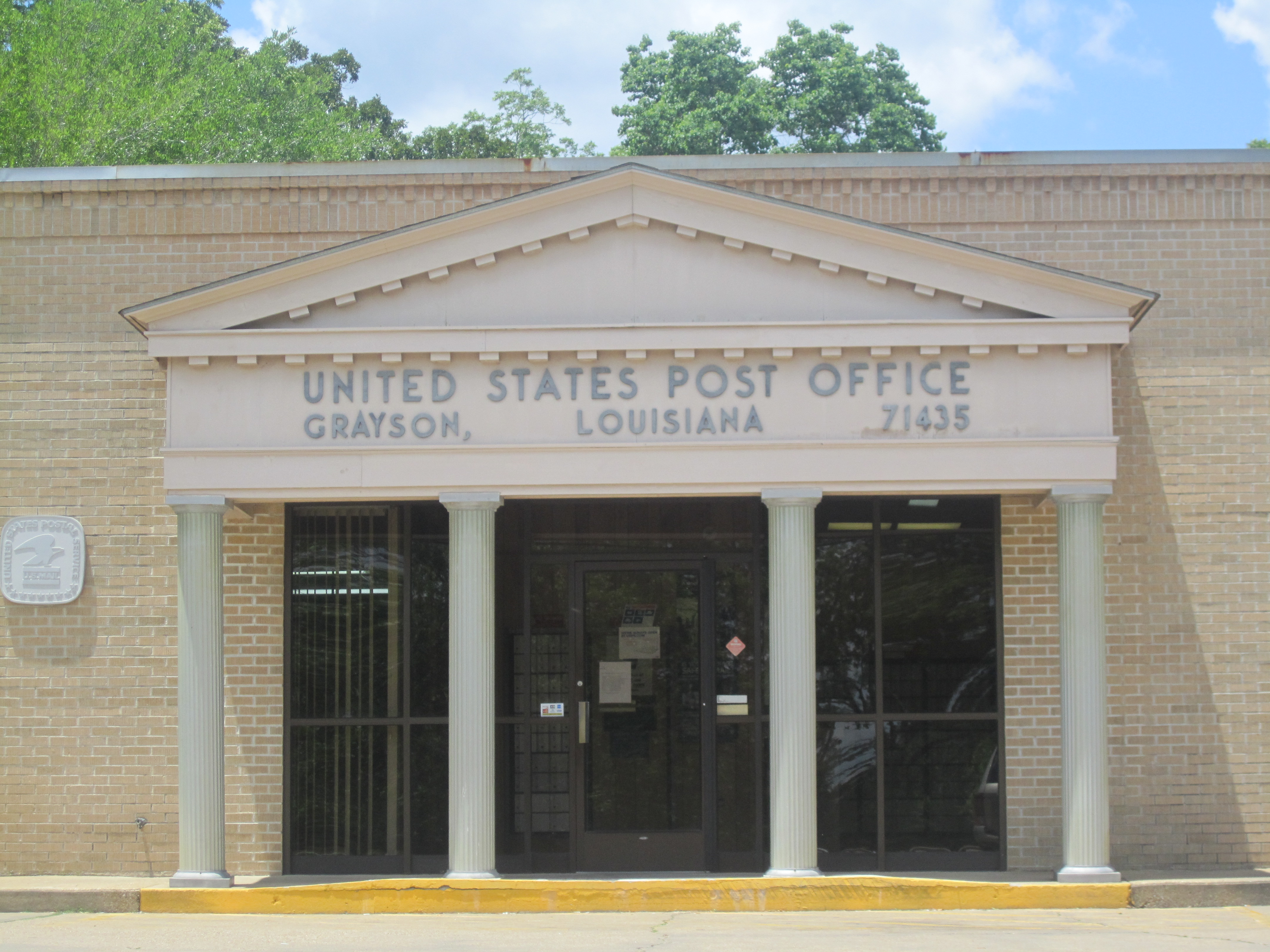 I took photo with Canon camera in Grayson, LA, of the post office there.